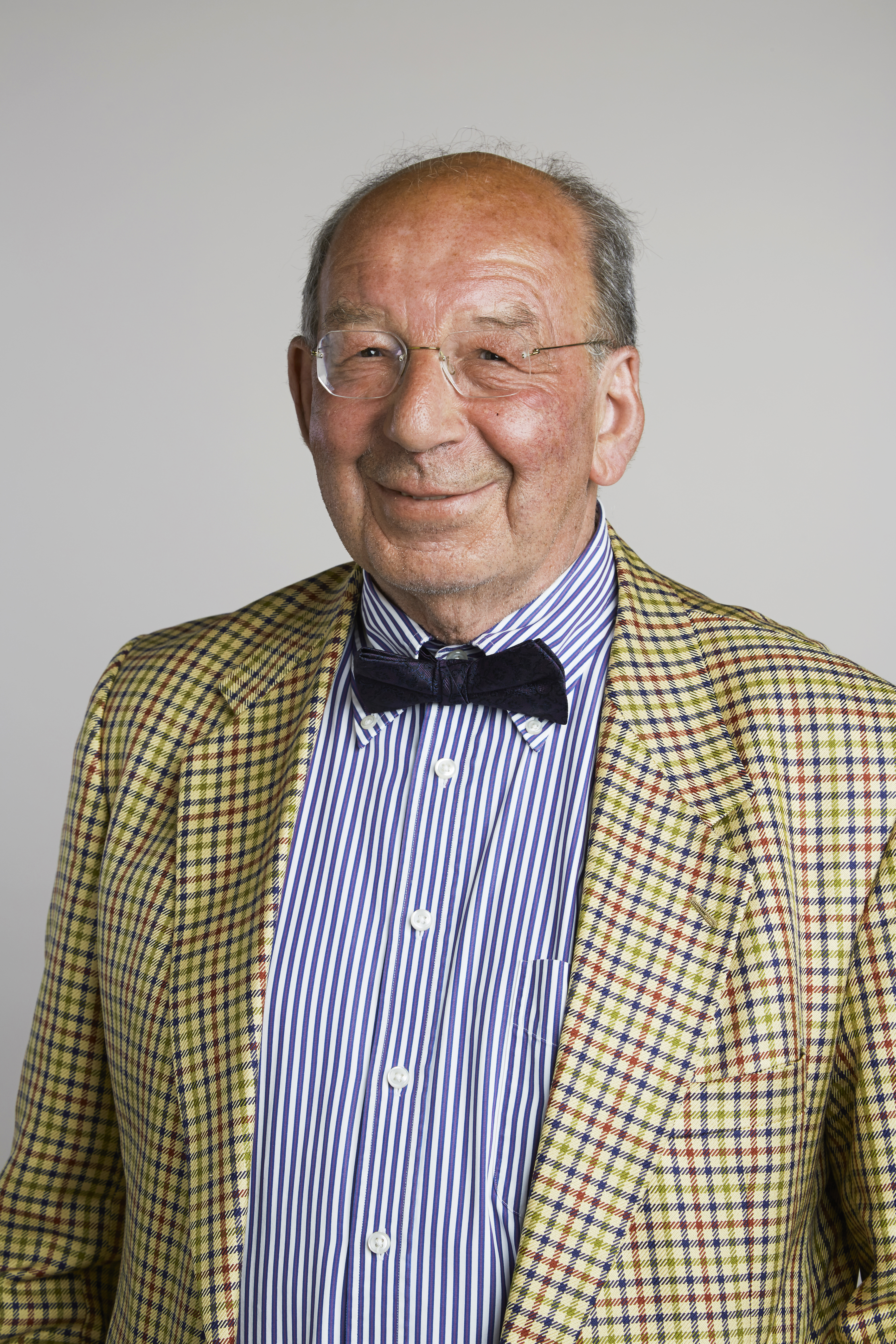 Achtman has founded four highly distinct areas of bacterial genetics: 1) bacterial conjugation involving the Escherichia coli F sex factor (1965-78), 2) E. coli neonatal meningitis (1979-86), 3) epidemic cerebrospinal meningitis caused by Neisseria meningitis (1983-2000). Since 1998 he has dedicated himself to the population genetics and genomics of bacterial pathogens. In each area he made seminal discoveries, resulting in global recognition, and is one of the globally most prominent bacterial population geneticists. In recent years, he was one of three co-inventors of multilocus sequence typing and has been at the forefront of comparative population genomics. He elucidated the historical associations of Helicobacter pylori with ancient human migrations, ancient global routes of transmission of historical plague, and has introduced dramatic changes to the practice of epidemiological typing of Salmonella enterica. He plays a leading role in large, international networks of microbiologists, and interacts extensively with theoreticians, historians and anthropologists. Honours: main prize of the Deutsche Gesellschaft fuer Hygiene und Mikrobiologie, 2004; foreign member of the Norwegian Academy of Sciences and Letters, 2014. Attribution: The Royal Society